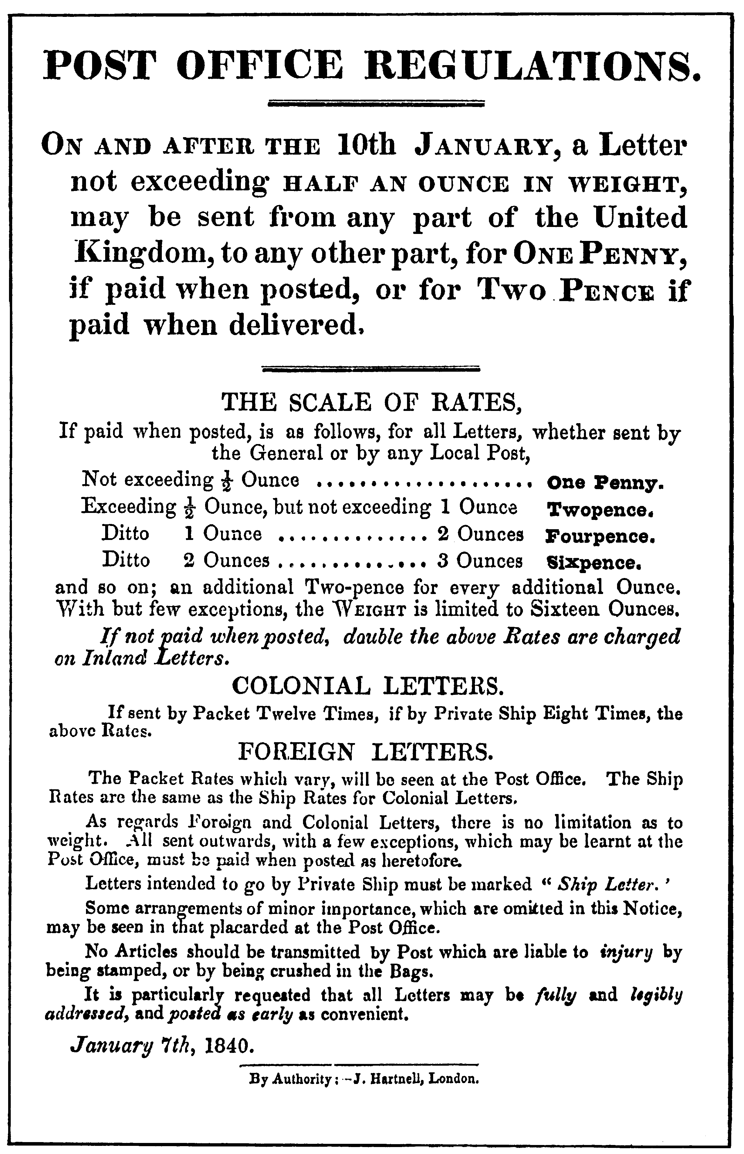 Royal Mail handbill - Post Office Regulations for the Uniform Penny Post that was introduced on 10 January 1840